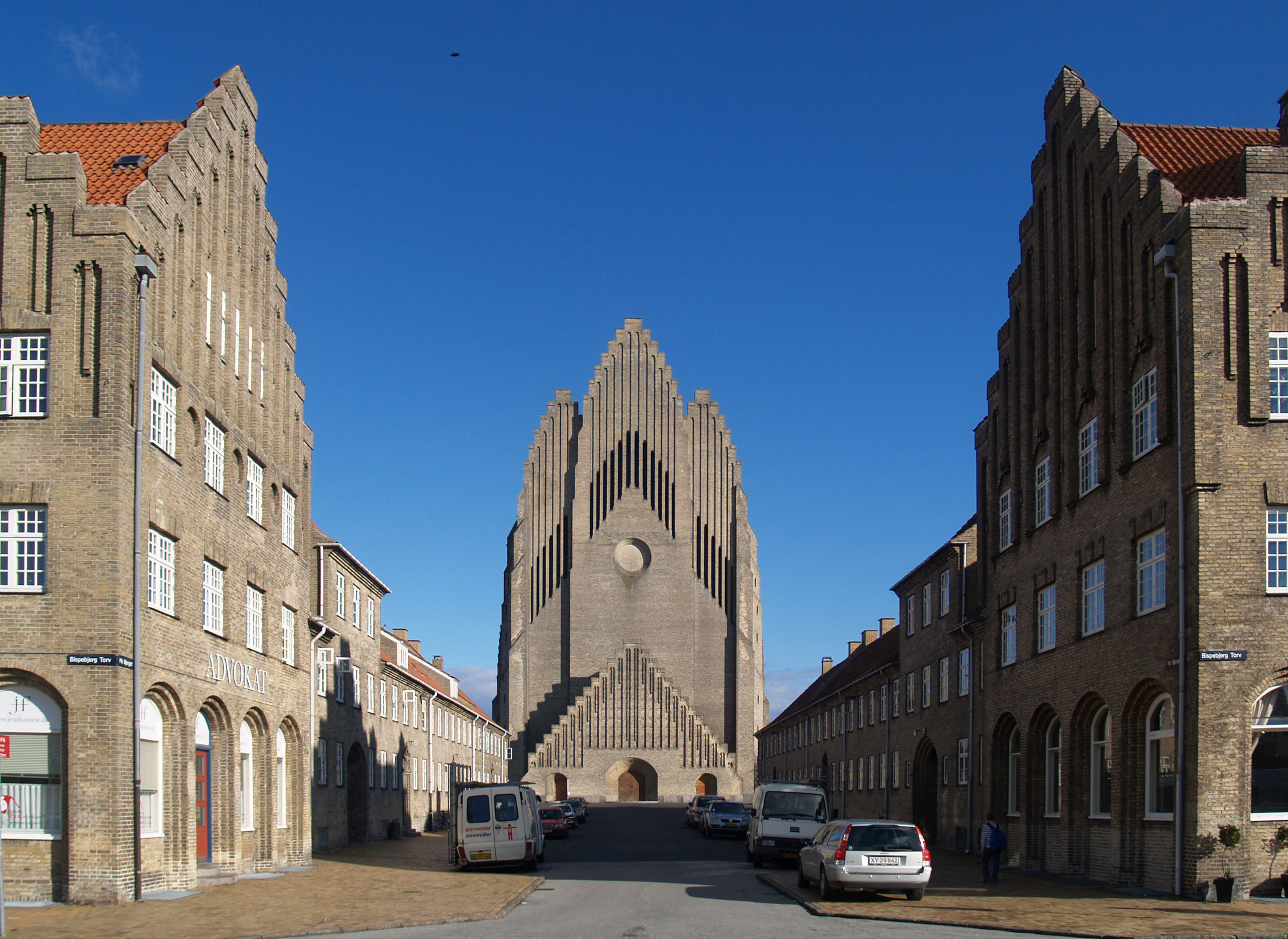 Grundtvig's Church in Copenhagen, view from the west.